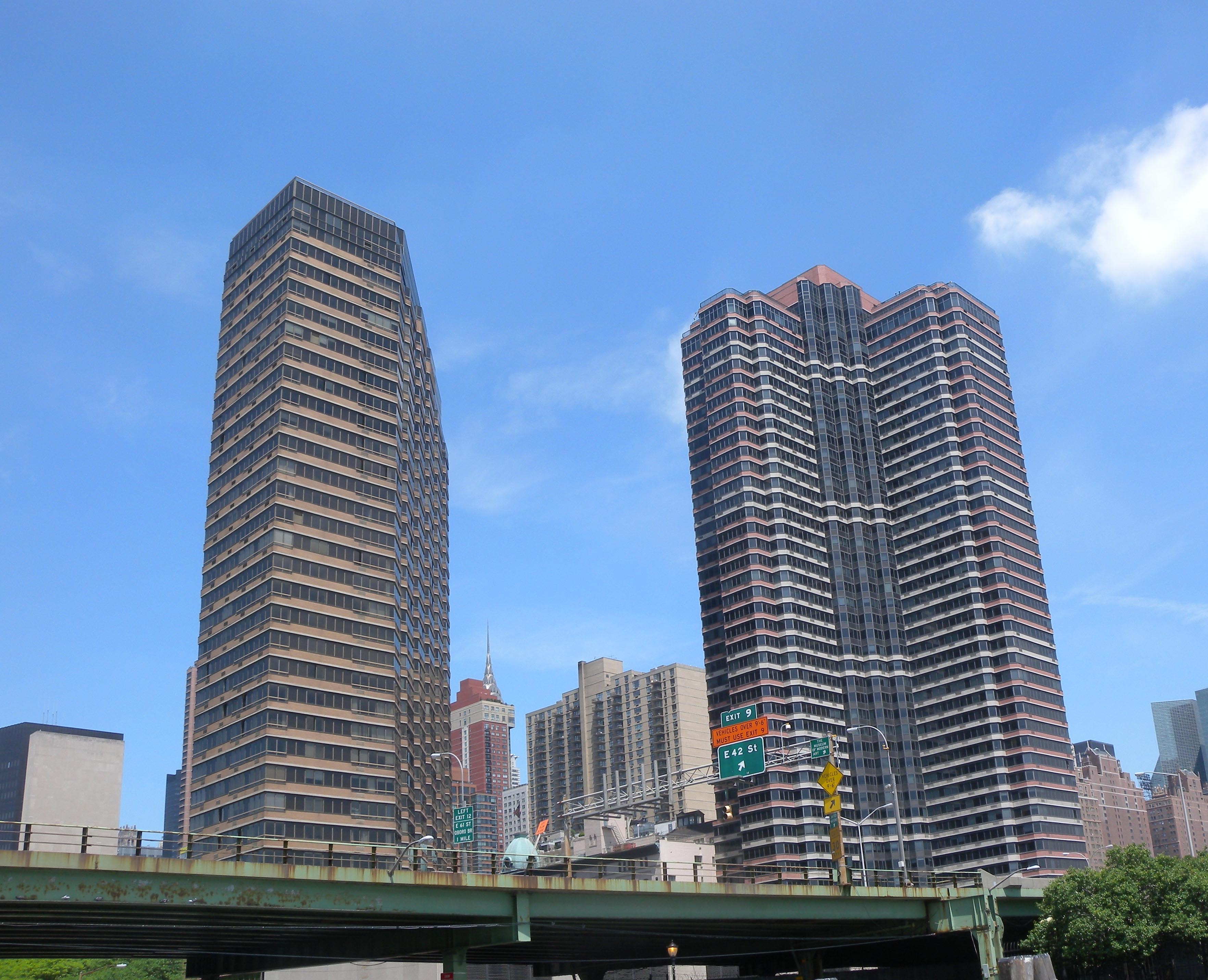 Looking northwest from East River Greenway across FDR Drive at Manhattan Place, 630 First Avenue (left, not to be confused with Category:Manhattan Place in Hong Kong) and The Horizon, 415 E37th (right), two condos, on a sunny midday.